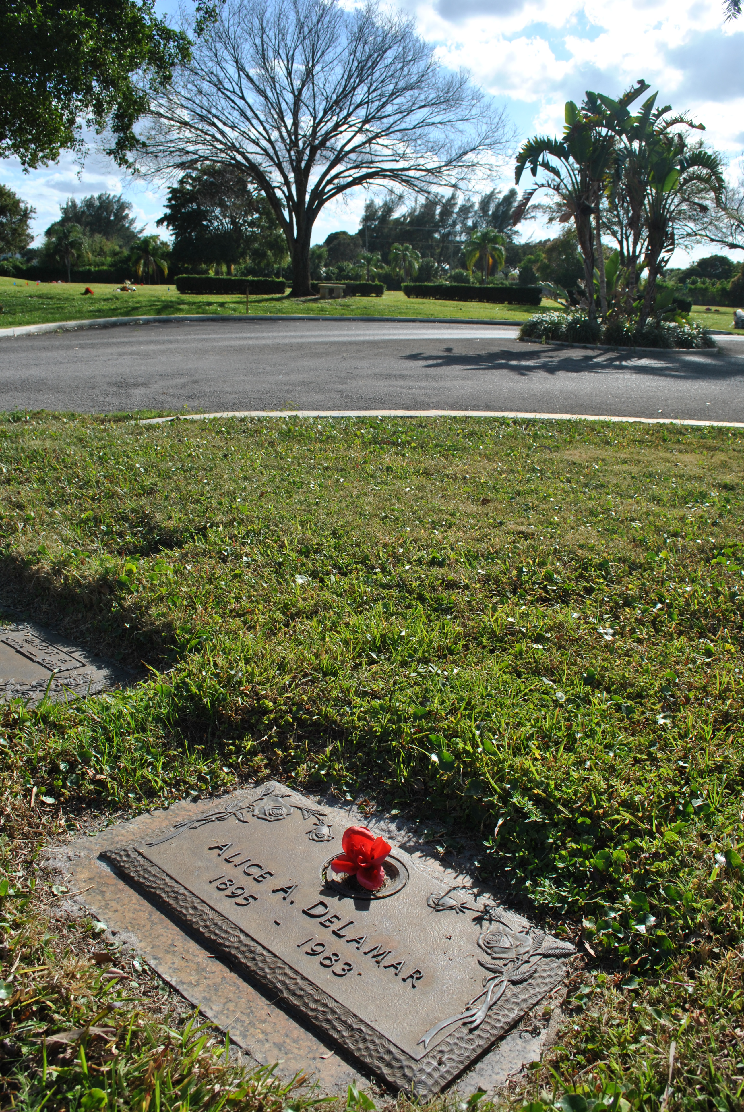 Image originally published in Queer Places: Retracing the Steps of LGBTQ people around the World Authored by Elisa Rolle